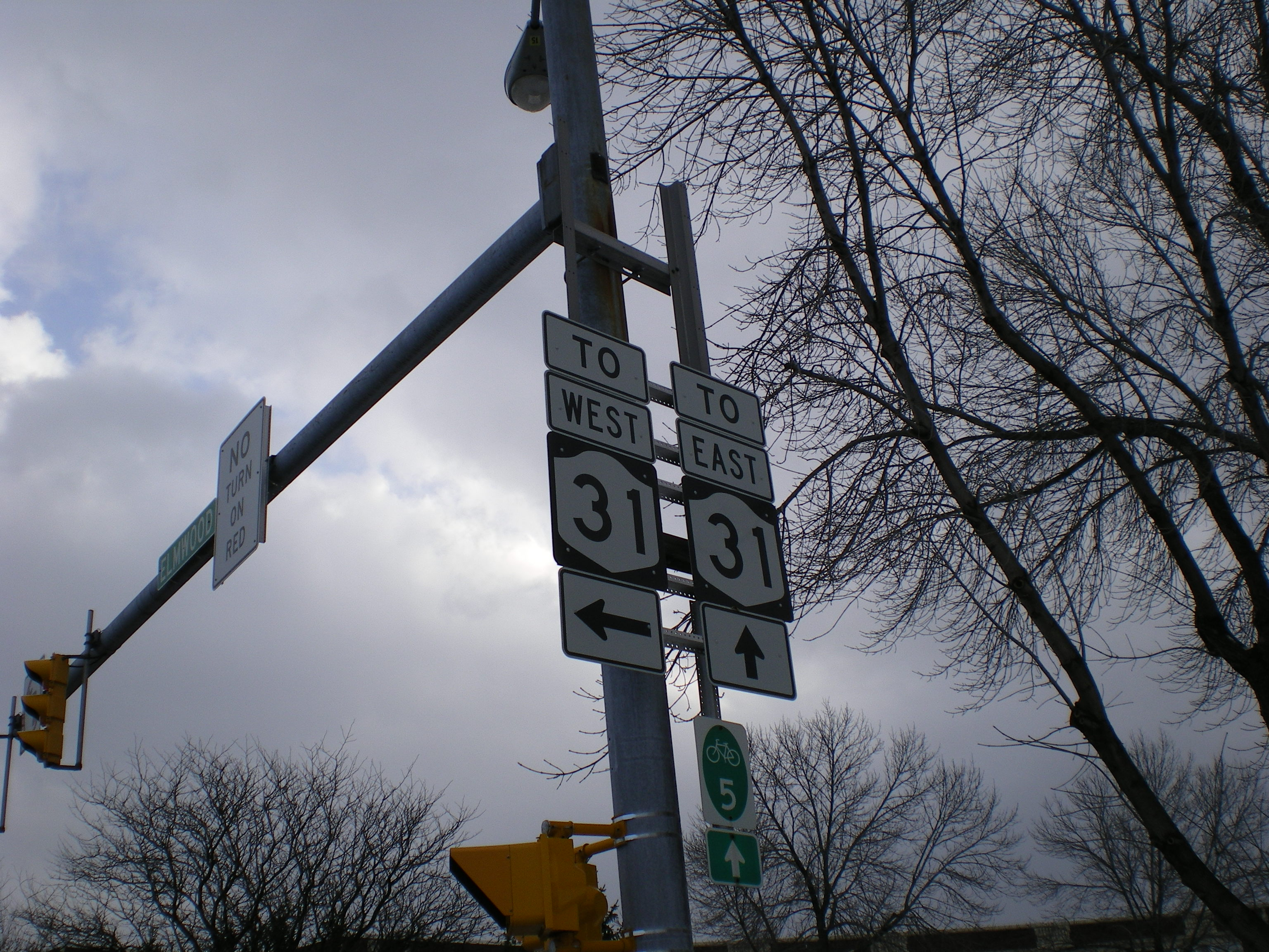 Close-up of a sign assembly at the intersection of Elmwood Avenue and Winton Road in Brighton, New York's Twelve Corners. Until 1980, the empty top half of the assembly had signage for New York State Route 47, which initially turned left here then was later realigned to continue straight on Elmwood.